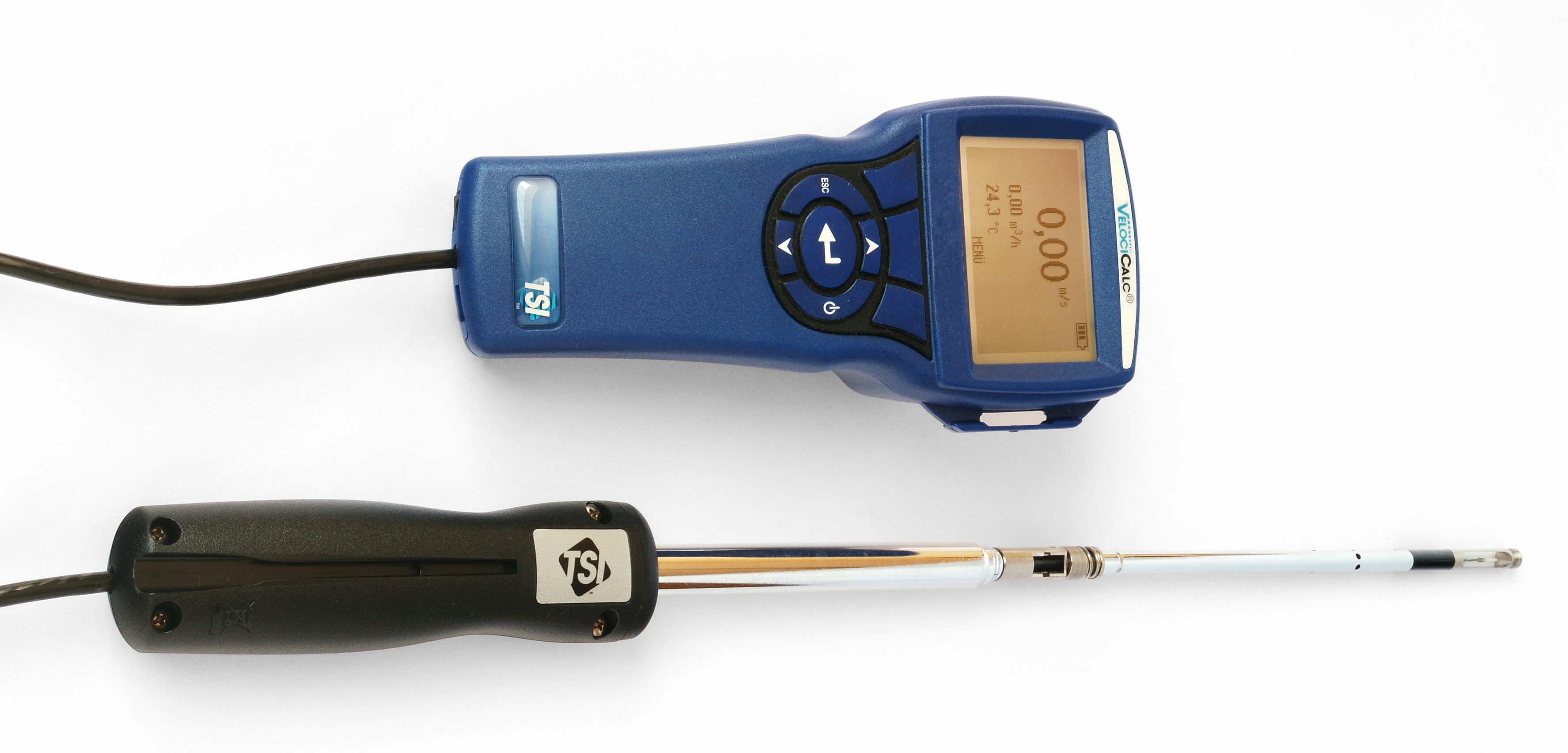 Combined air velocity and air temperature meter, thermal anemometer, type TSI VelociCalc 9535. The telescope probe has a maximum legth of 101 cm suitable for measurements at difficult to reach locations.